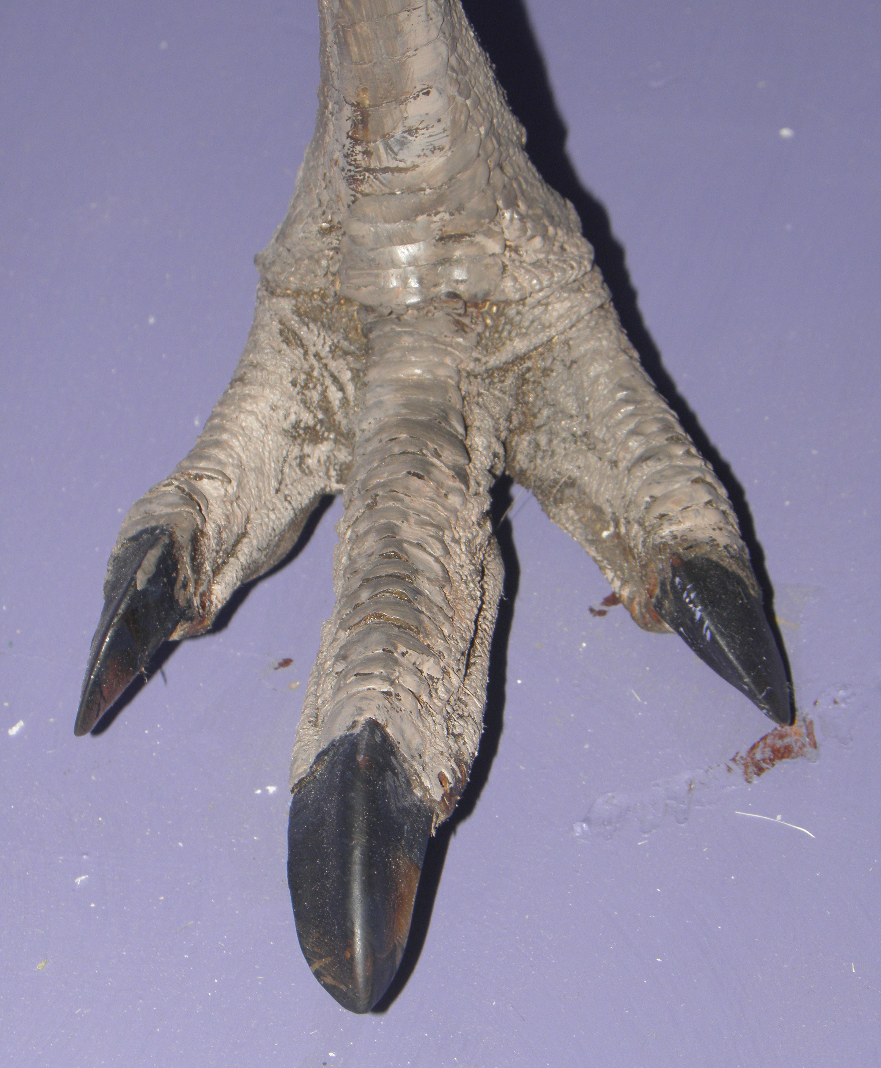 Foot of Patagonian Lesser Rhea